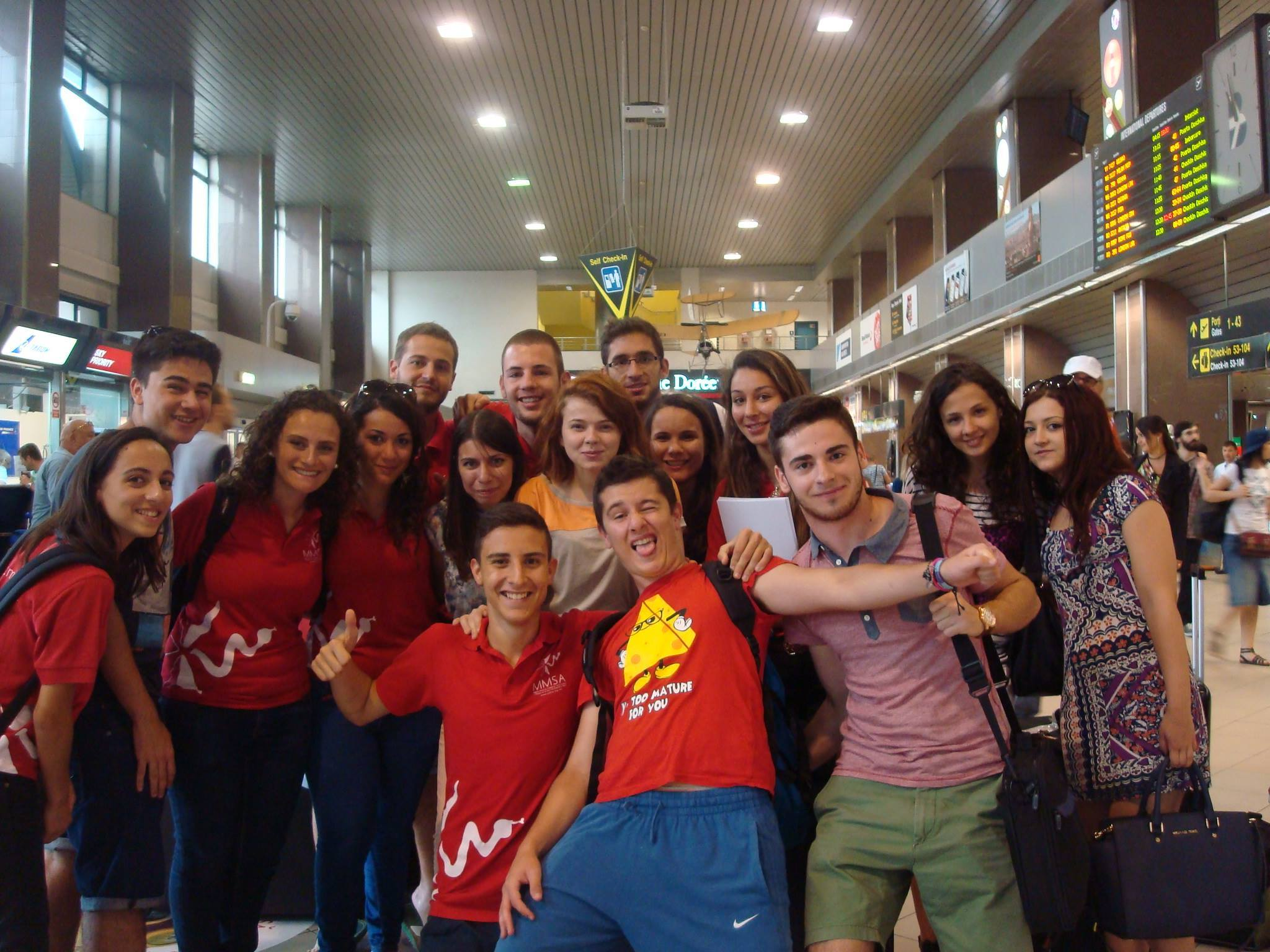 Voluntary experience in Bucharest, July 2014